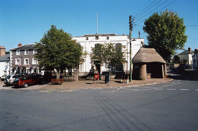 Bradninch: Fore Street. The village centre, with the Castle Inn, Fore Street, on the left. An old coaching inn, it included a small brewery in the 19th century. Bradninch was once on the great west road from Bristol to Exeter but was largely bypassed by long-distance traffic following the opening of the Cullompton turnpike in circa 1820, which ran in the valley via Broadclyst. This road, later designated the A38, was itself superseded by the M5 Motorway in 1977